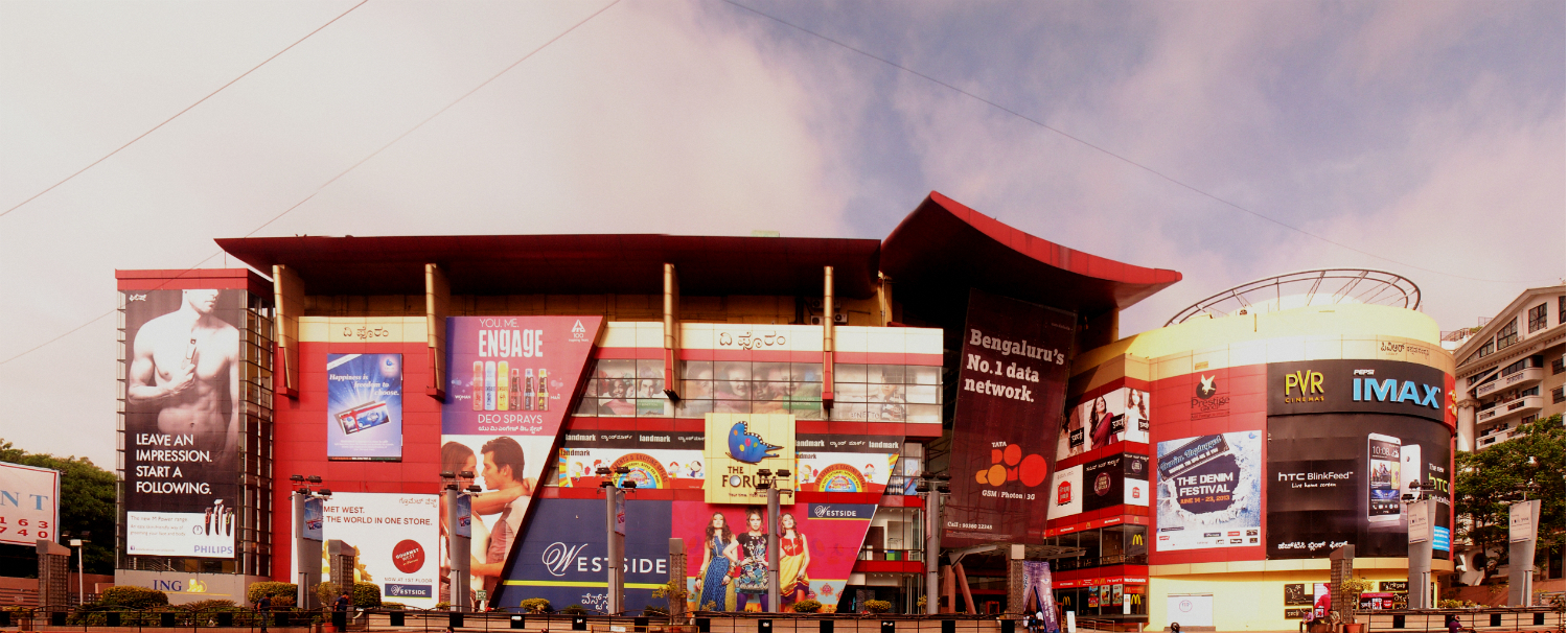 The Forum Shopping Mall